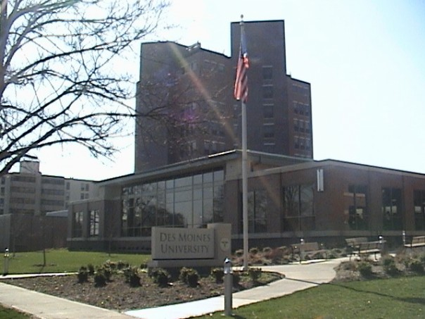 Des Moines University, IA as seen from Grand AVE. This image includes the gym in the forefront and the DMU clinic rising from the back.